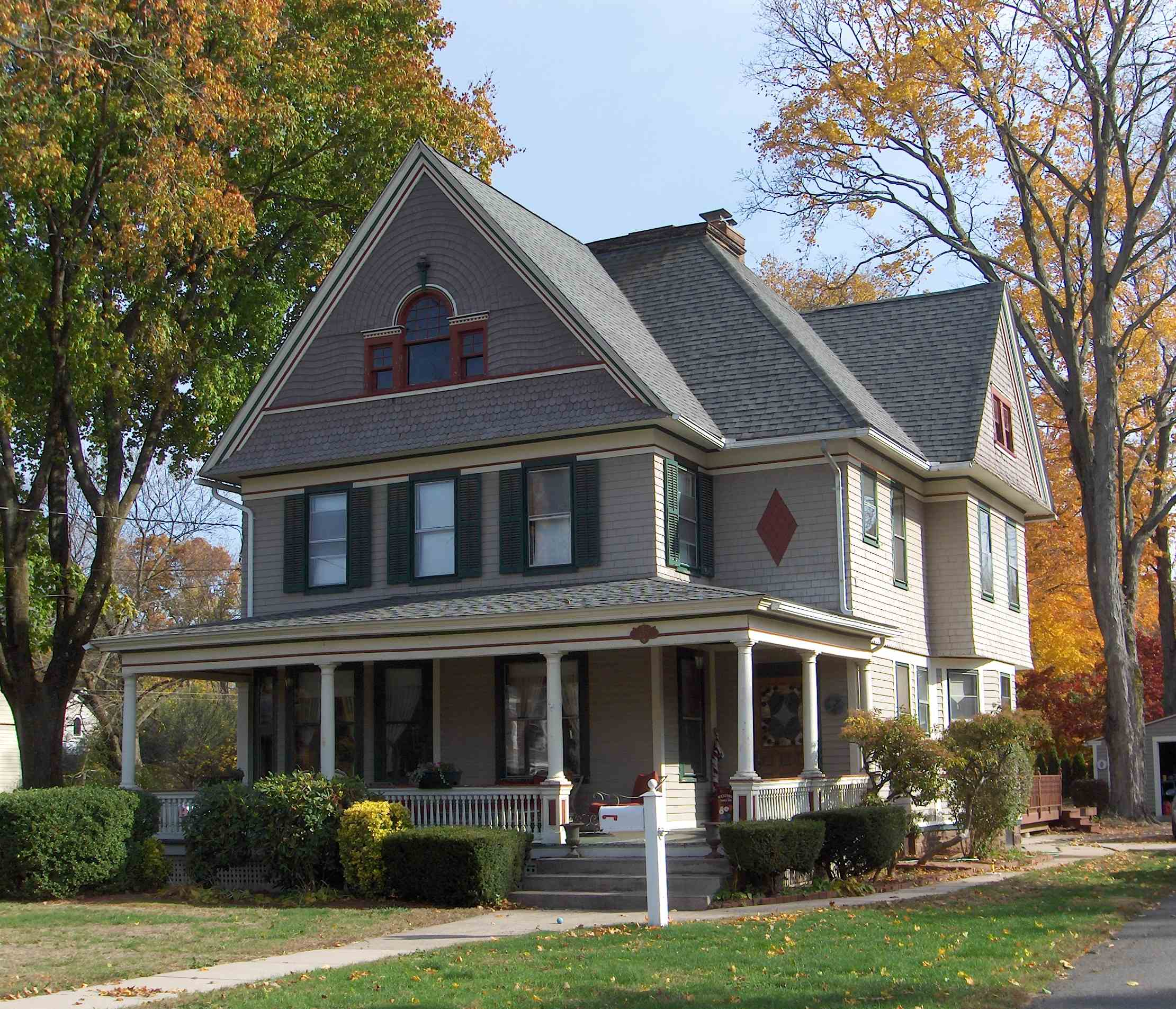 Charles W. Beckley House at 155 Meriden avenue, in the Meriden Avenue-Oakland Road Historic District of Southington, CT USA. Built in 1897